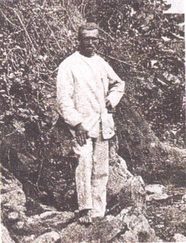 Arthur Rimbaud in Harar